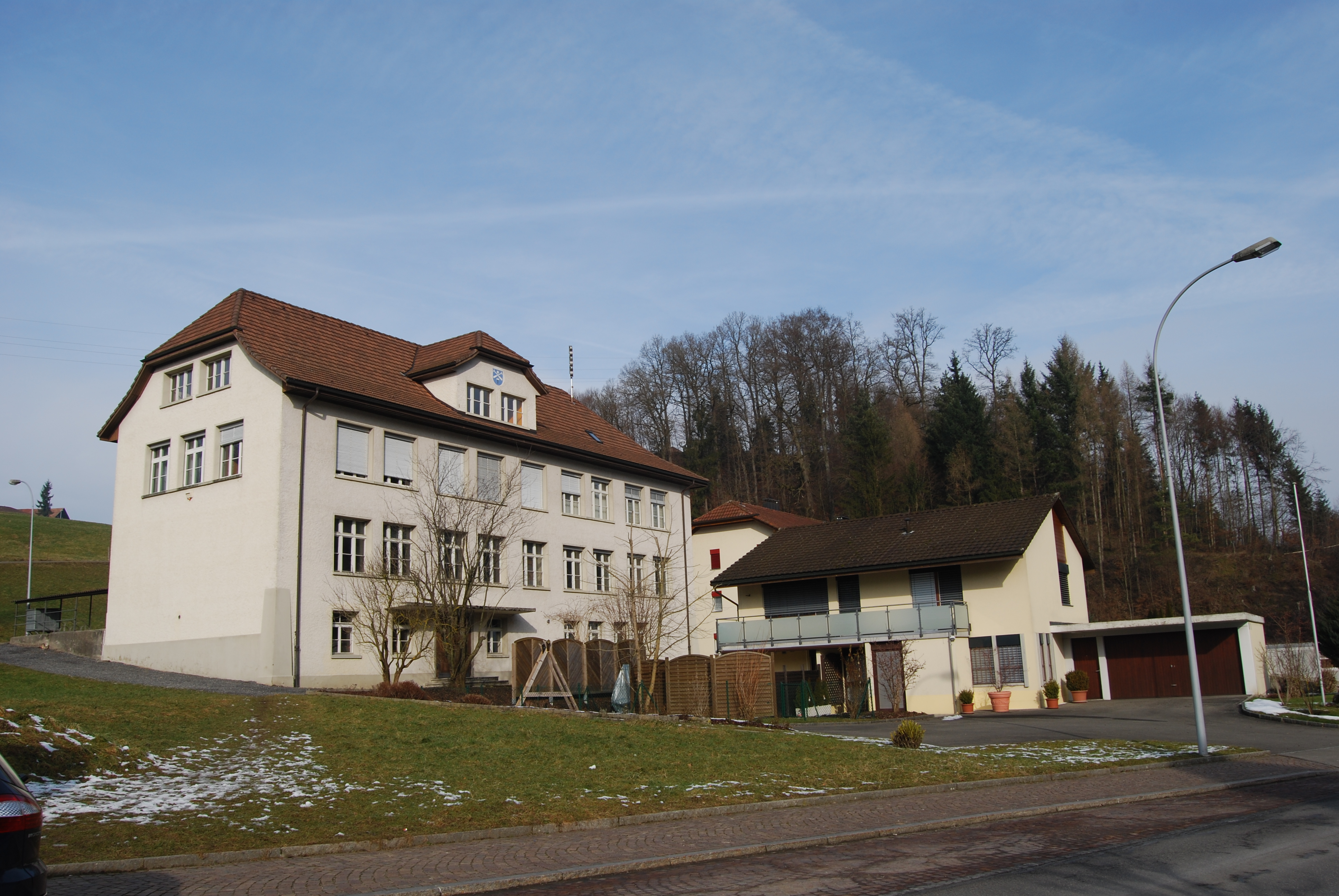 Municipality of Schmiedrued, canton of Aargau, SwitzerlandEsperanto: Komunuma domo de Ruederche en Schmiedrued, Kantono Argovio, Svislando